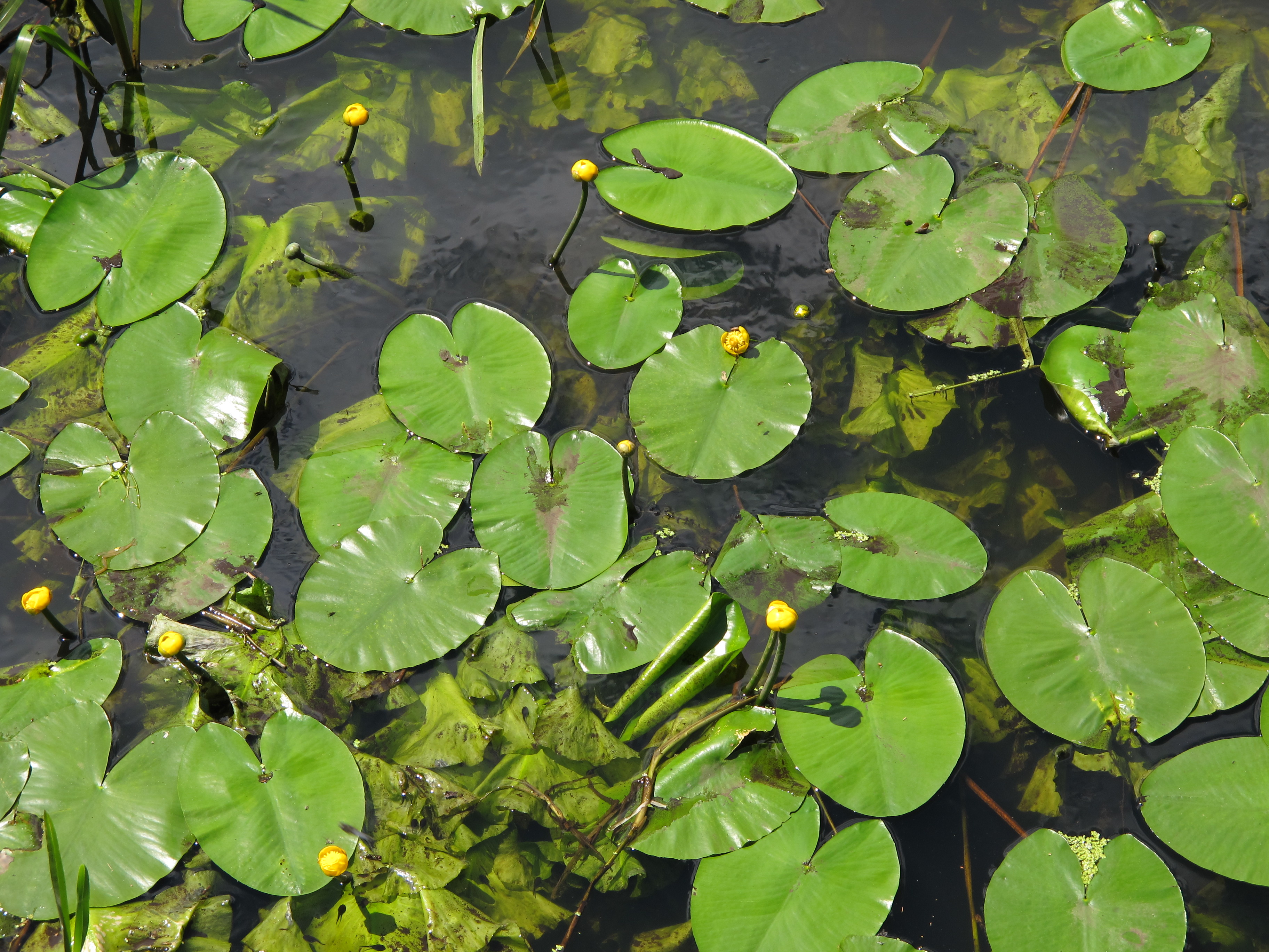 Spatterdock (Nuphar lutea) on Płoska river near Zajma village, gm. Michałowo, podlaskie